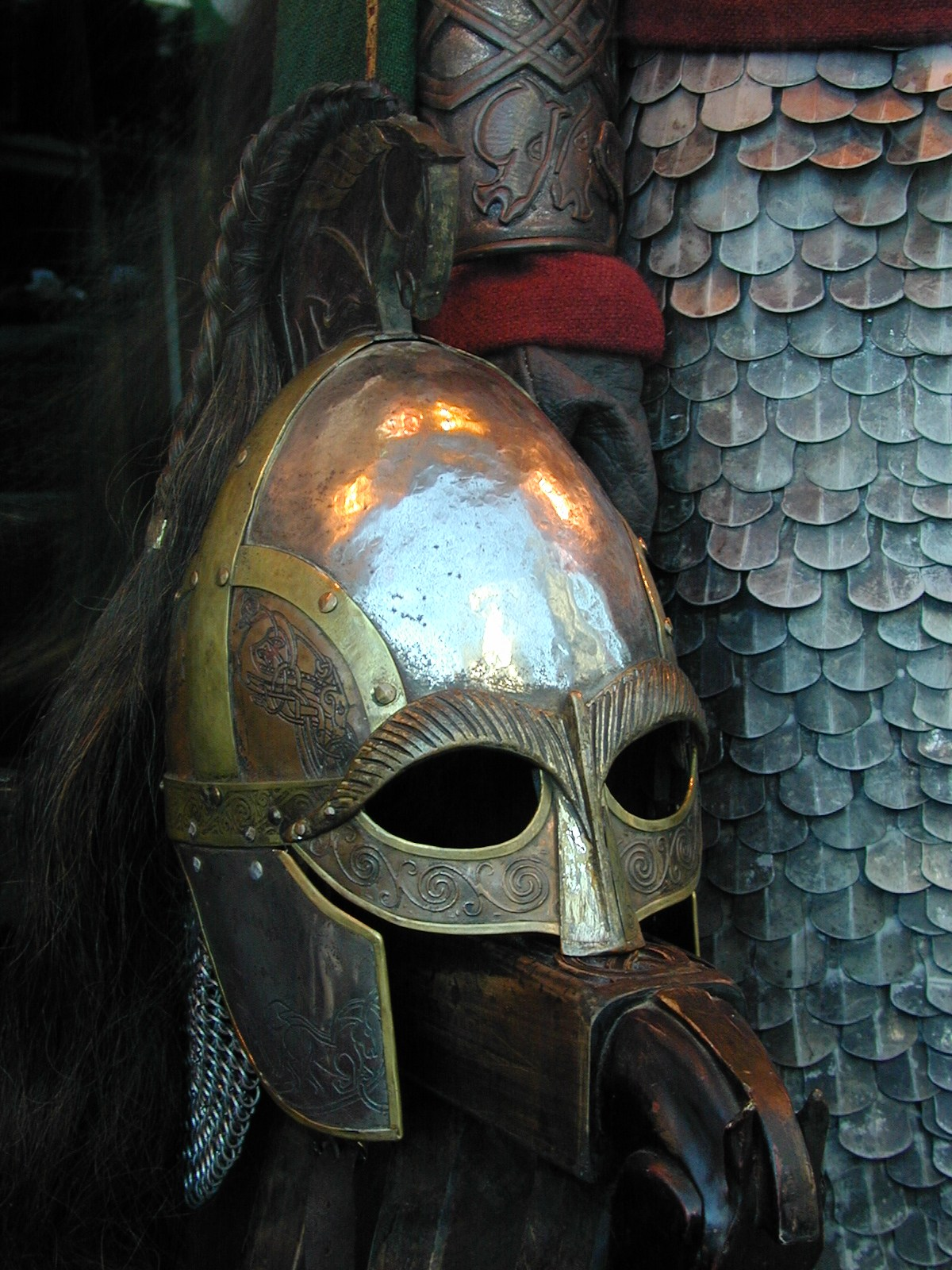 Rohirric helmet and armour from the The Lord of the Rings film trilogy.